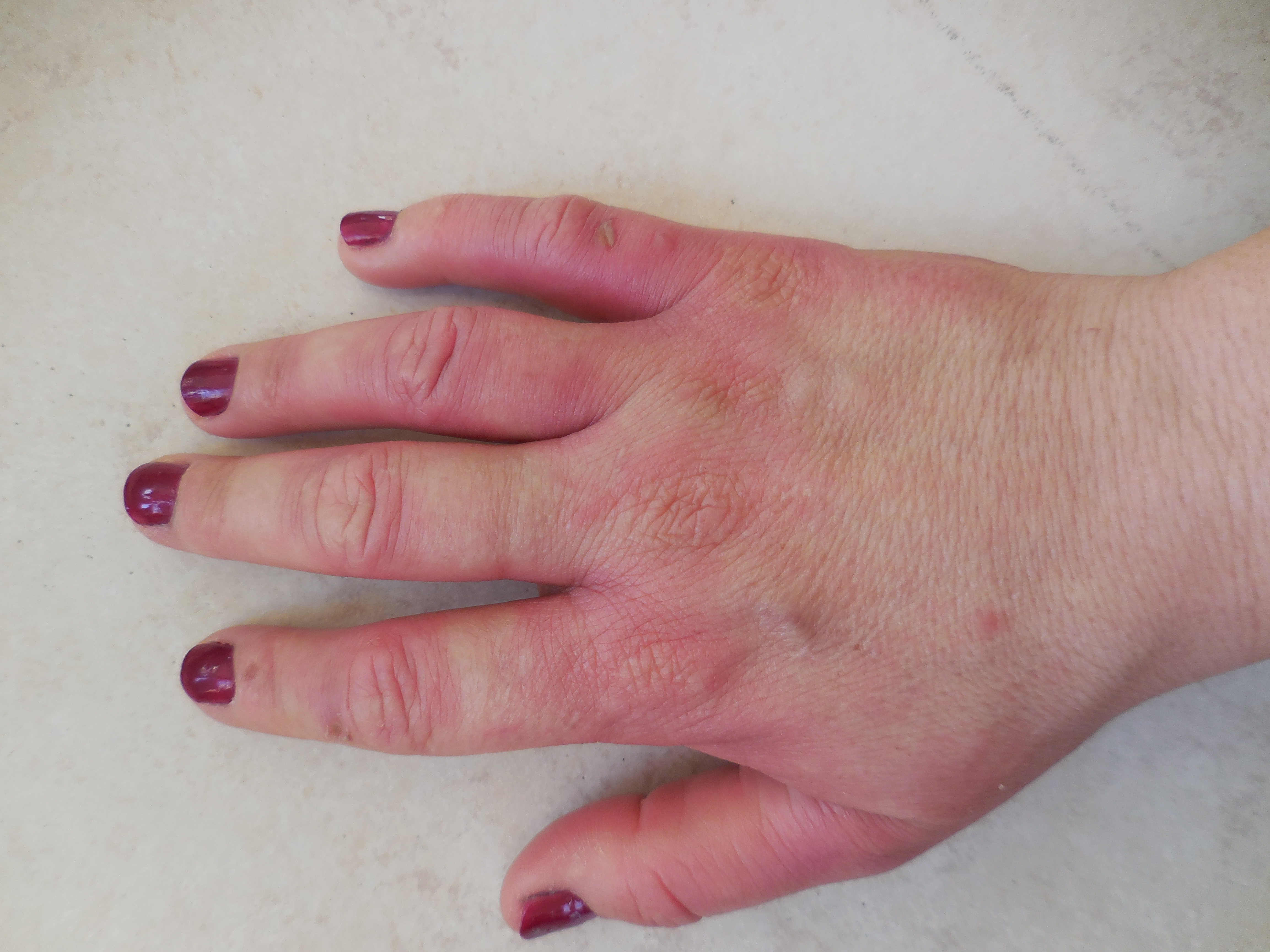 Hand-foot Syndrome after 3rd cure Taxotere 100mg/m2